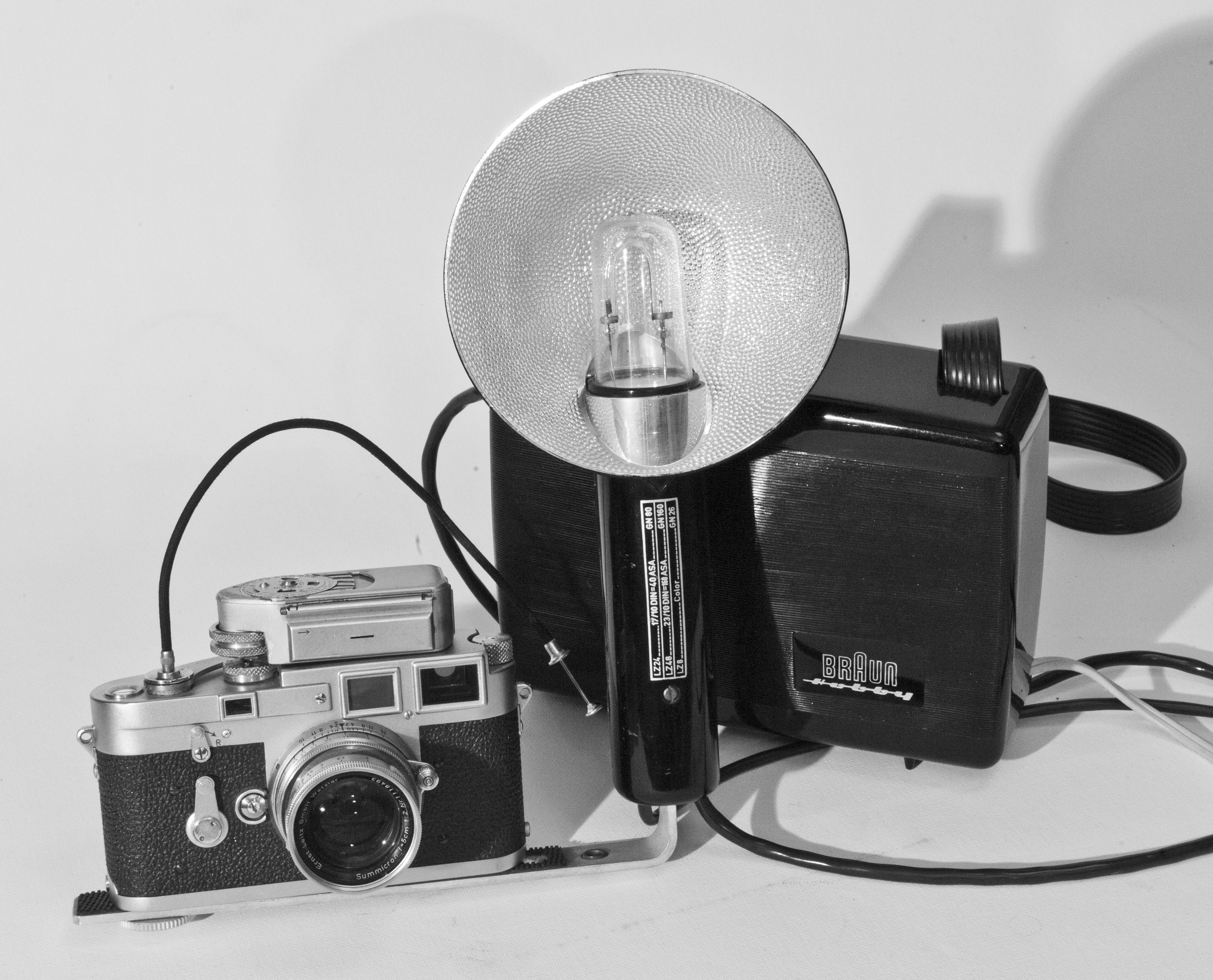 LEICA M3 connected to a flash from BRAUN both from 1954